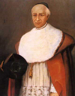 Portrait of Joaquim Masmitjà, as a canon in Girona